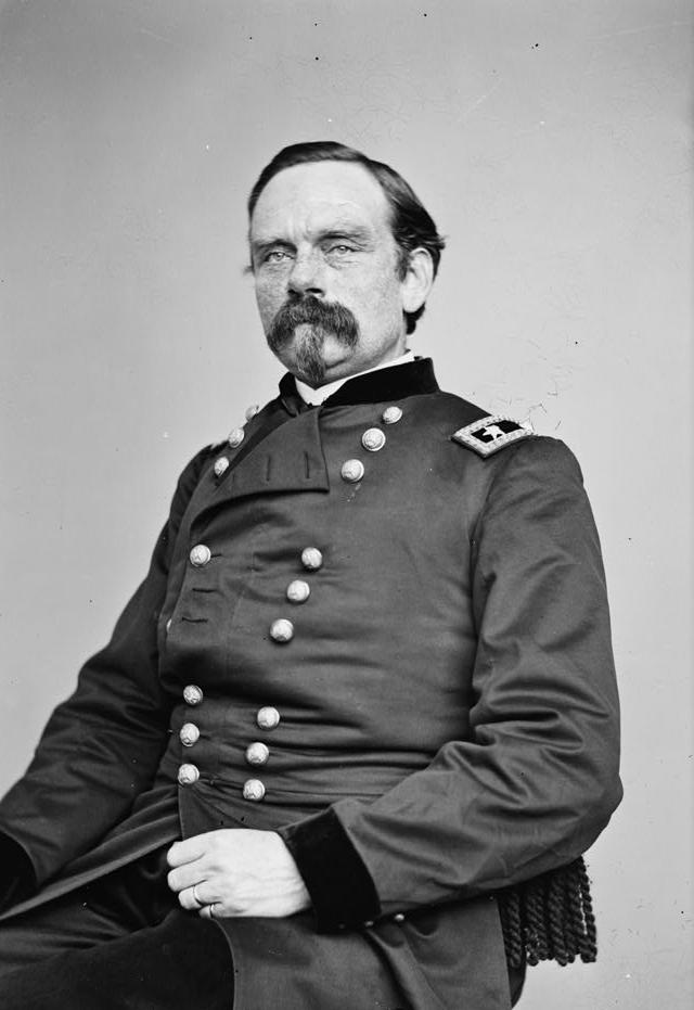 Portrait of Maj. Gen. Peter J. Osterhaus, officer of the Federal Army.